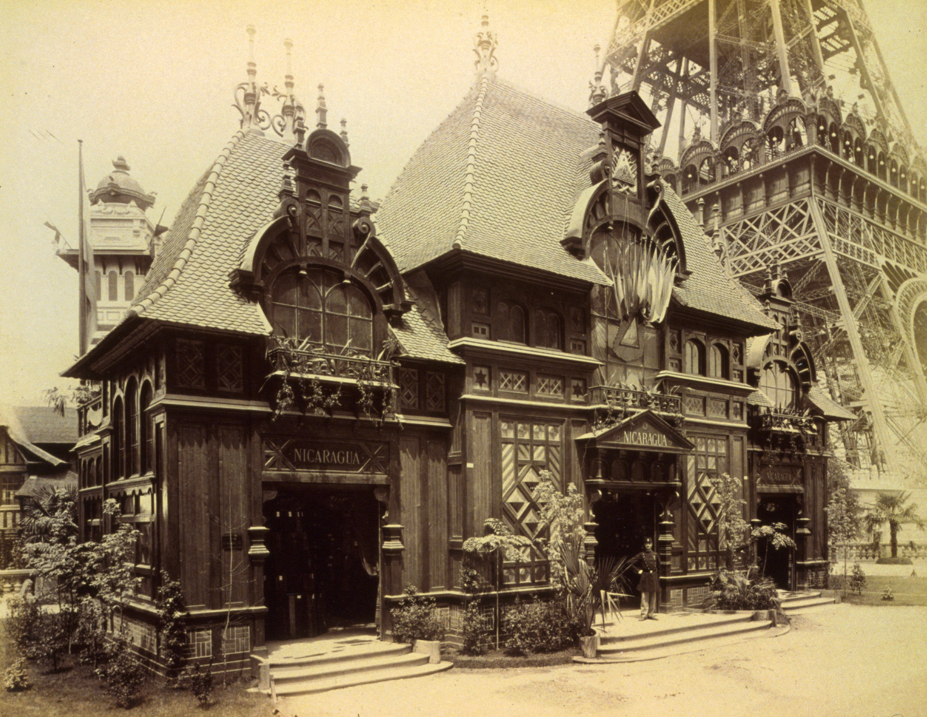 Pavilion of Nicaragua and base of the Eiffel Tower, Paris Exposition, 1889